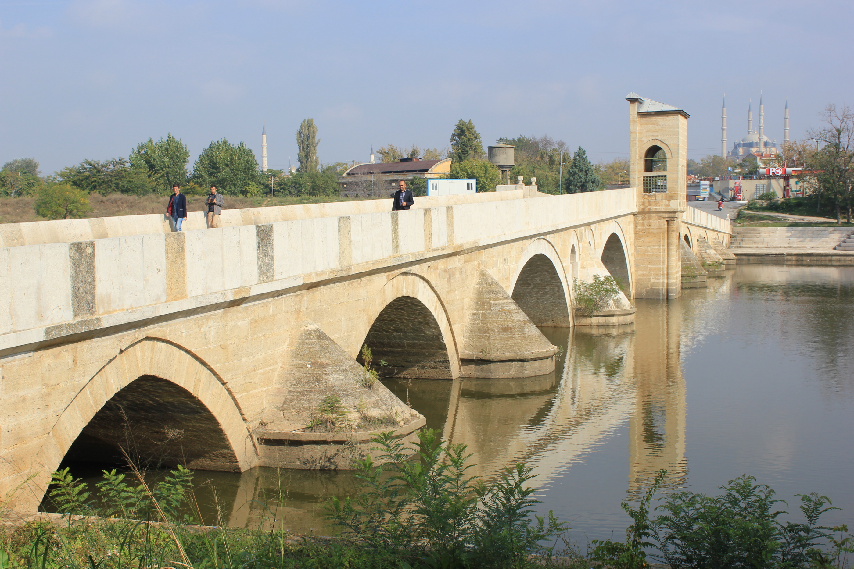 Ekmekcioglu Ahmet Pasha bridge over Tundzha River in Edirne.